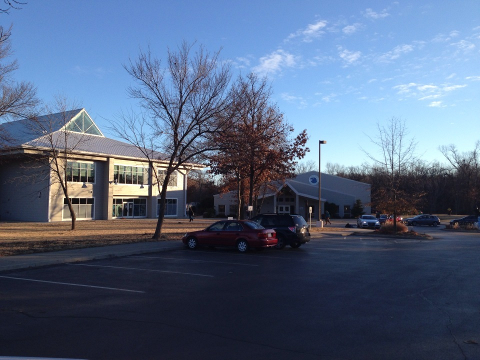 The Upper and Middle School expansion, temporarily named the High School Building, seen completed next to the Rogers building in January 2014.